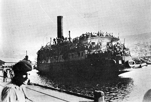 The SS Exodus, formerly the Baltimore Steam Packet Company's President Warfield, arriving with 4,515 Jewish refugees at Haifa on 20 July, 1947.